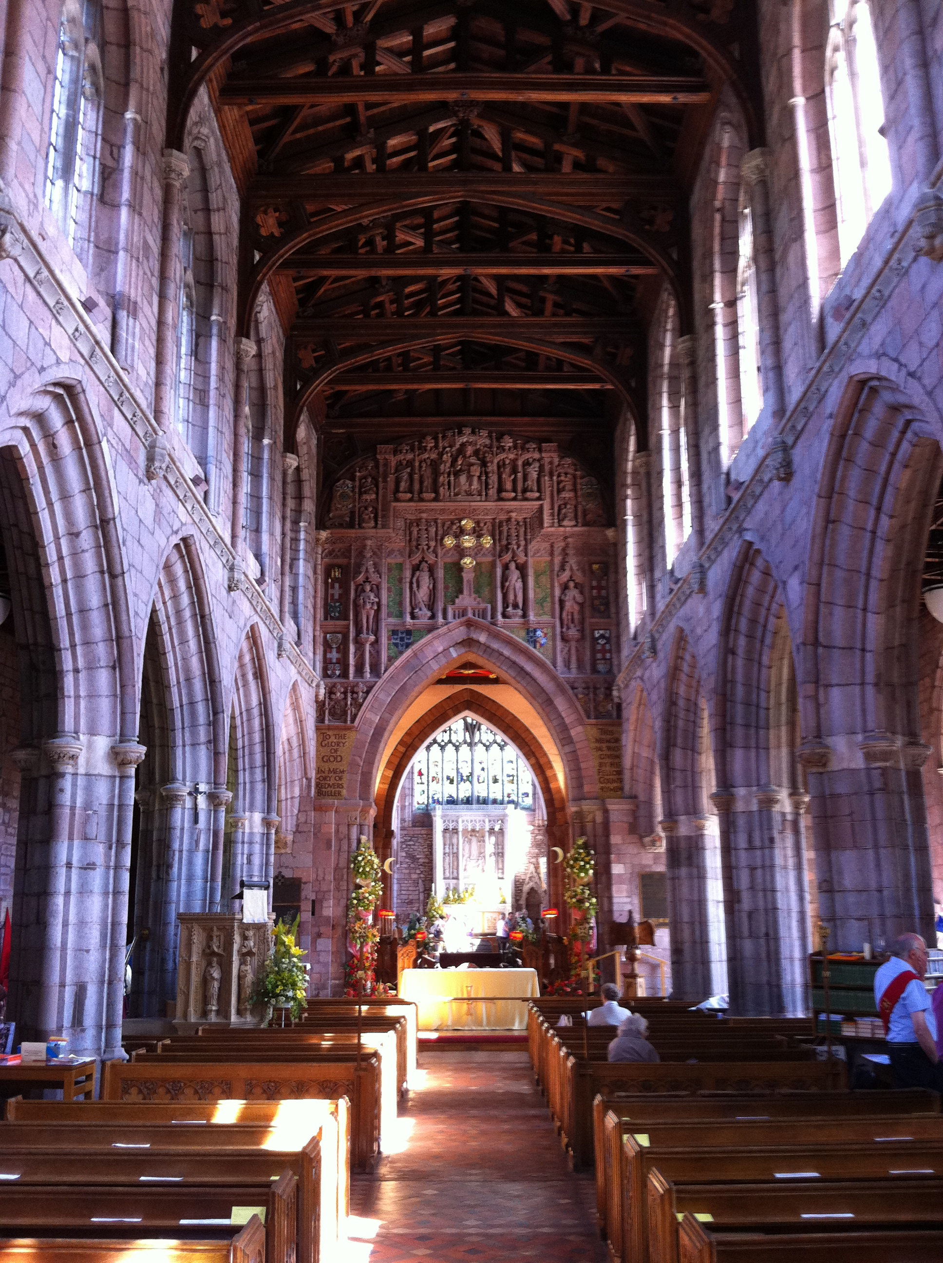 Church of the Holy Cross, Crediton